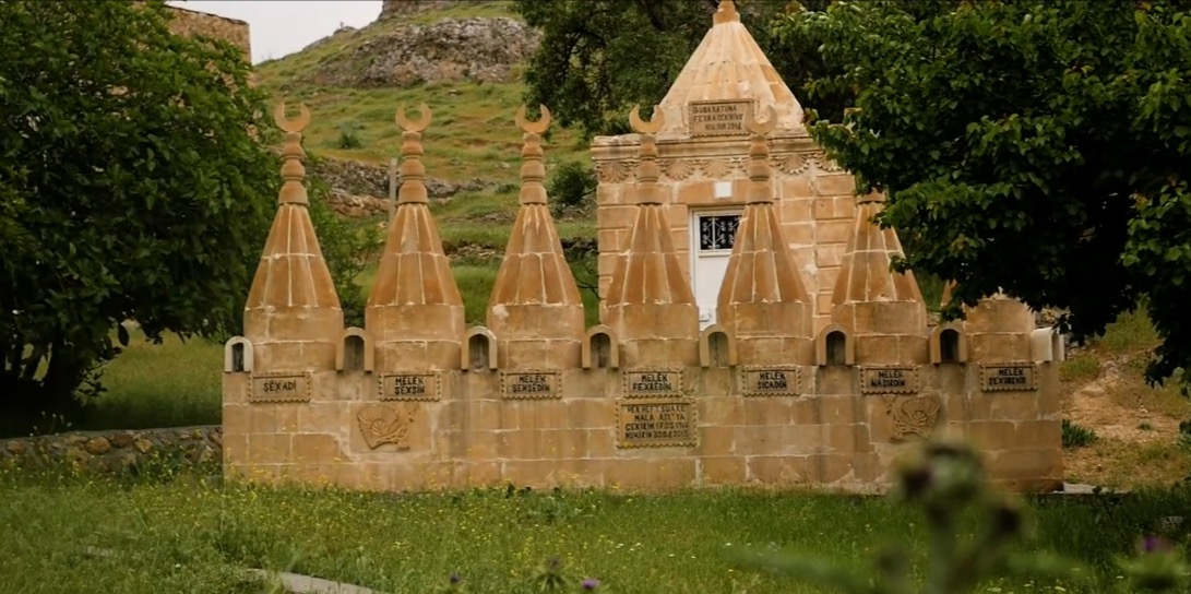 Yazidi temple „Quba Xatuna Fexra“ (shrine of Khatuna Fekhra) in Kiwex, Turkey